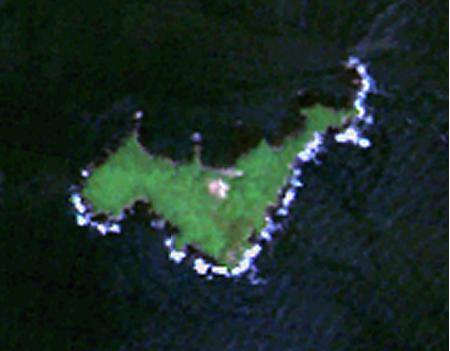 Anuchin (Akiyuri) island in Habomai, Russia. Claimed by Japan.